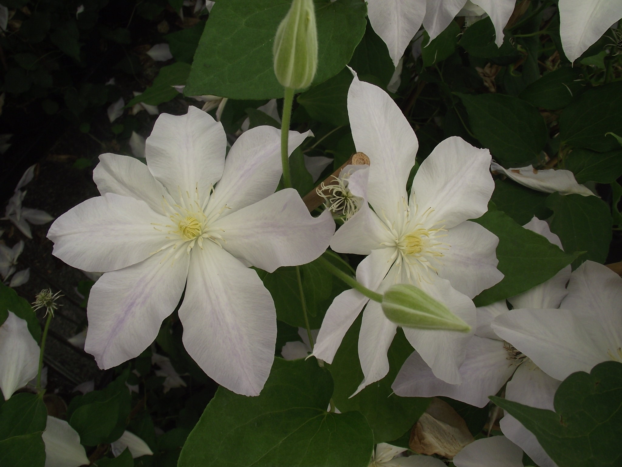 Clematis patens evipo003